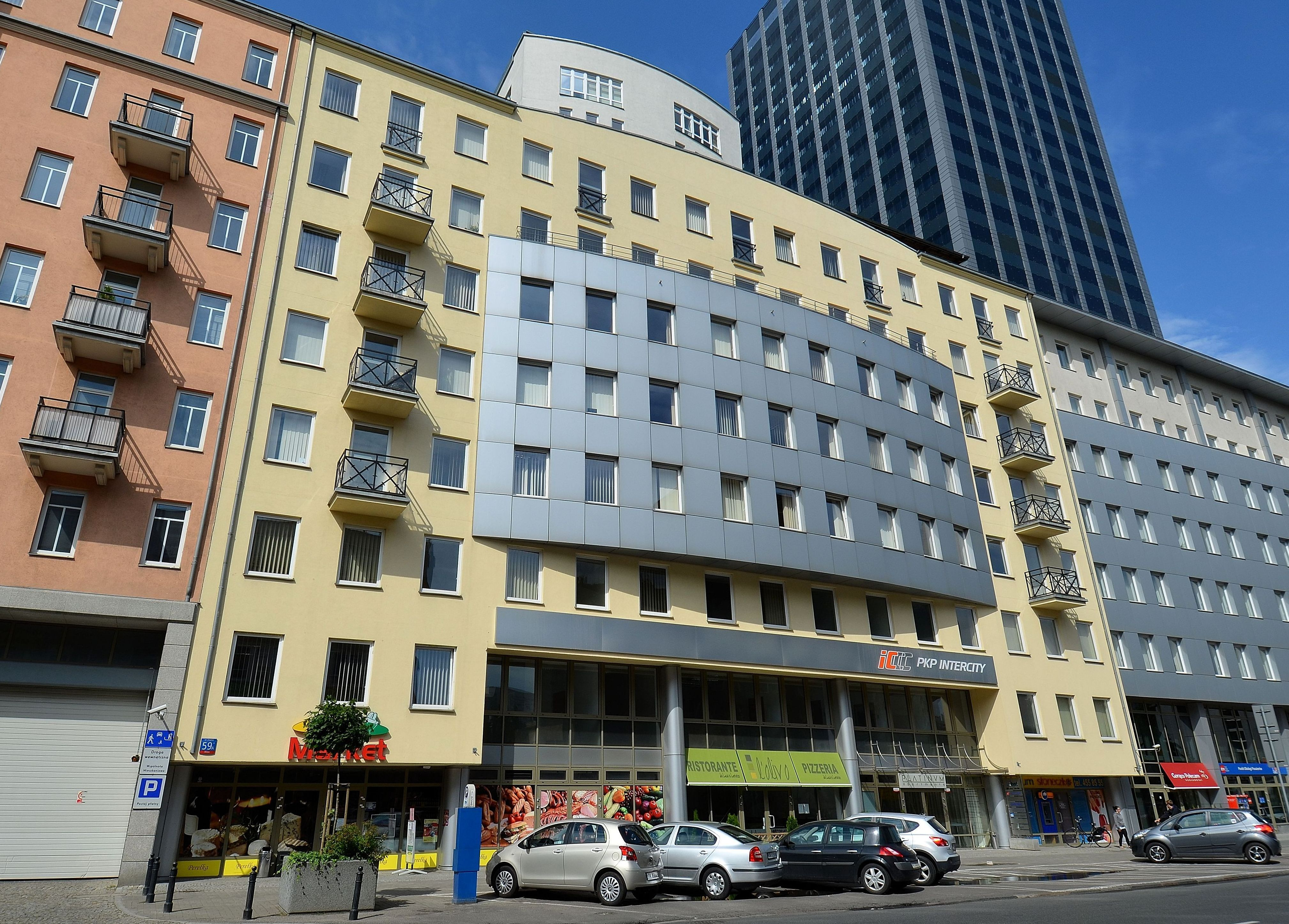 PKP Intercity HQ at 59a Żelazna Street in Warsaw